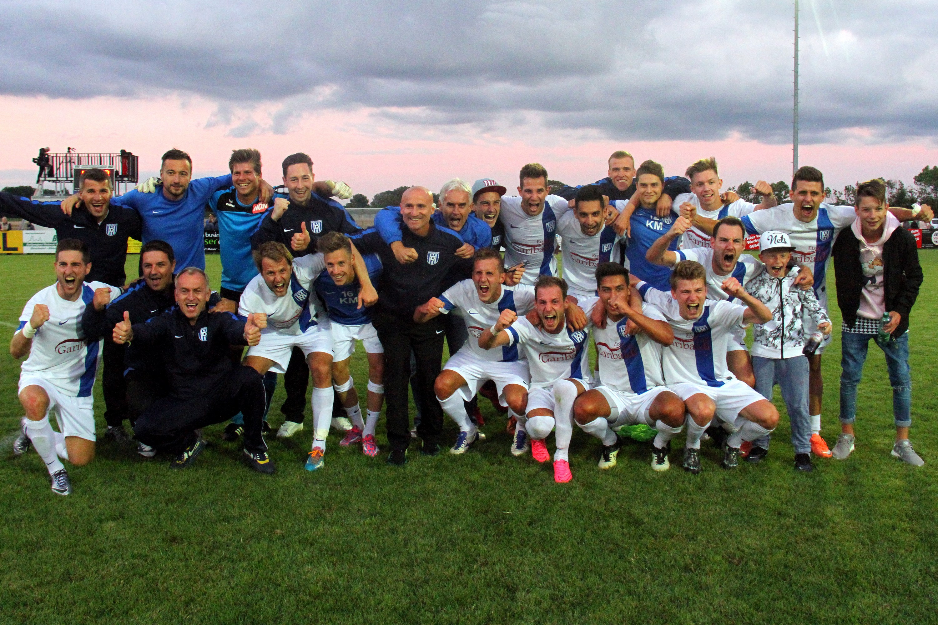 2016–17 Austrian Cup, 1st Round: ASK Ebreichsdorf vs. Wolfsberger AC 1-0 (1-0) at 2016-07-15 in Ebreichsdorf – The photo shows